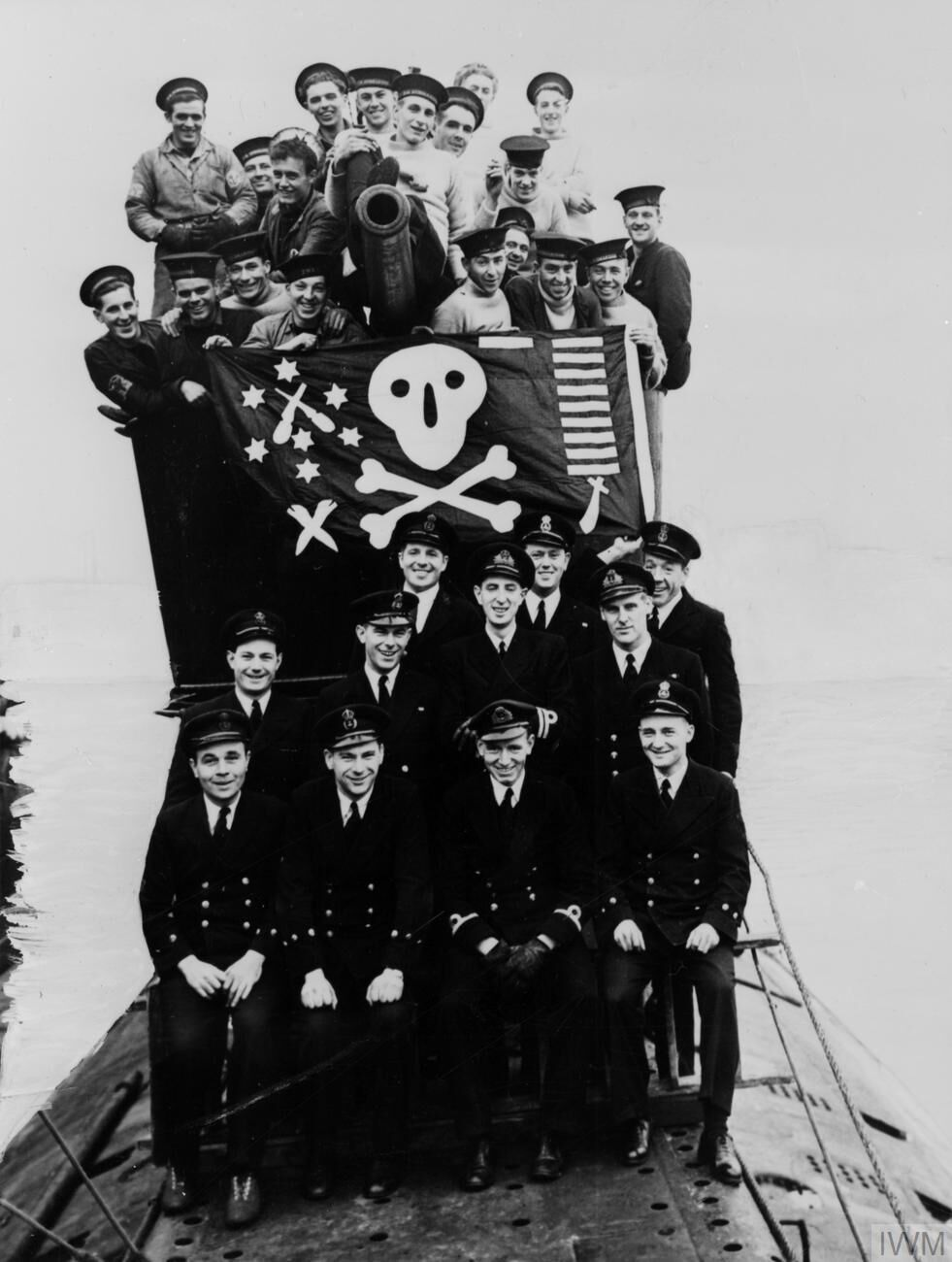 Hm Submarine Proteus, Returns Home With a Record of Her Mediterranean Successes. Plymouth, 30 October 1942. Some of the officers and men of HMS PROTEUS grouped round the conning tower with their Jolly Roger.